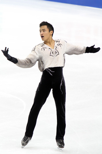 Florent Amodio at the 2010 World Championships.